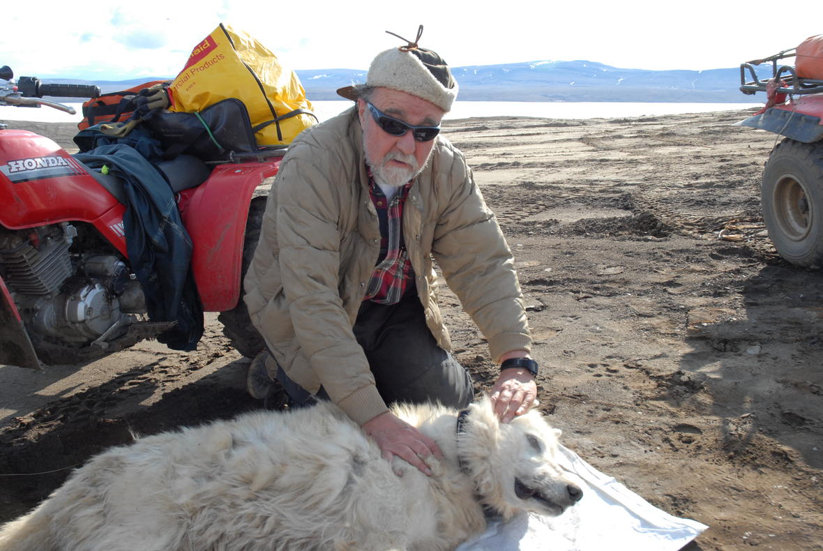 Brutus, a wolf being studied by USGS scientists, is chemically immobilized, measured, ear-tagged, and fitted with a radio collar near the Eureka airstrip on Ellesmere Island in the High Arctic, Nunavut, Canada. This radio collar will obtain two GPS (Global Positioning System) locations a day for 2 years and transmit these locations to an orbiting satellite every 4 days. These locations are then relayed to scientists Dave Mech and Dean Cluff via e-mail. A VHF (Very High Frequency) transmitter is also included in the collar to allow scientists to track the wolf at close range and retrieve the collar once it drops off. The collar has a breakaway insert that is programmed to release on June 15, 2011. Brutus recovers from the immobilizing drug within 2 hours and shows no interest in his new collar.